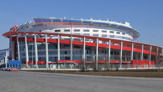 Ice palace in Moscow (Khodynka Arena)